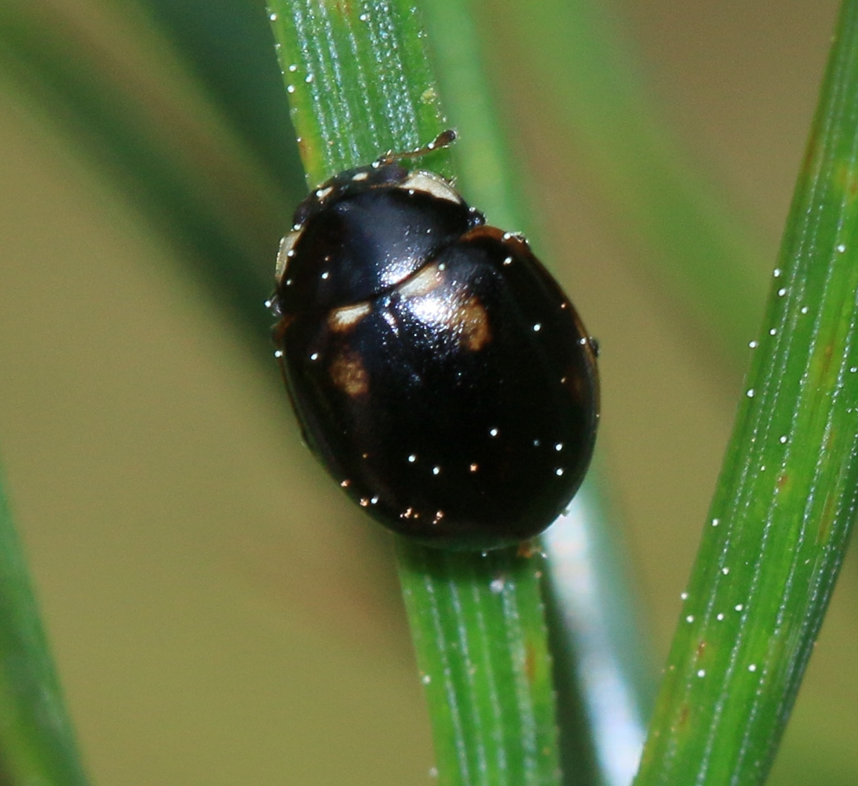 Aldie Forest, Ross-shire, Scotland NH7579